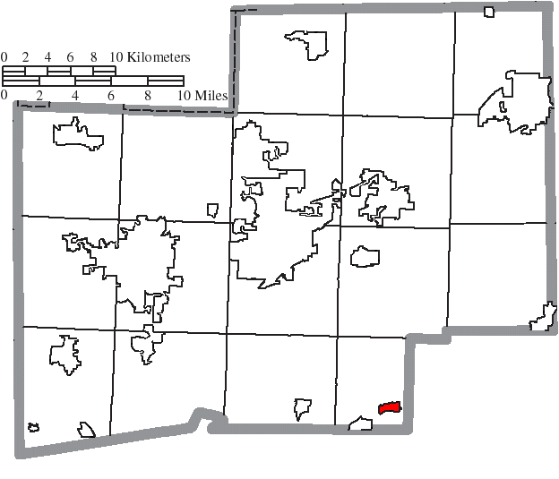 Map of the municipal and township boundaries of Stark County, Ohio, United States, as of the 2000 census, with the location of the village of Waynesburg highlighted. Township borders are shown only in unincorporated areas in order to differentiate incorporated and unincorporated areas more clearly.